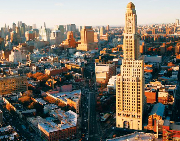 The landmark Williamsburg Savings Building, renovated with 200 high-end residences and offices. Brooklyn, NY